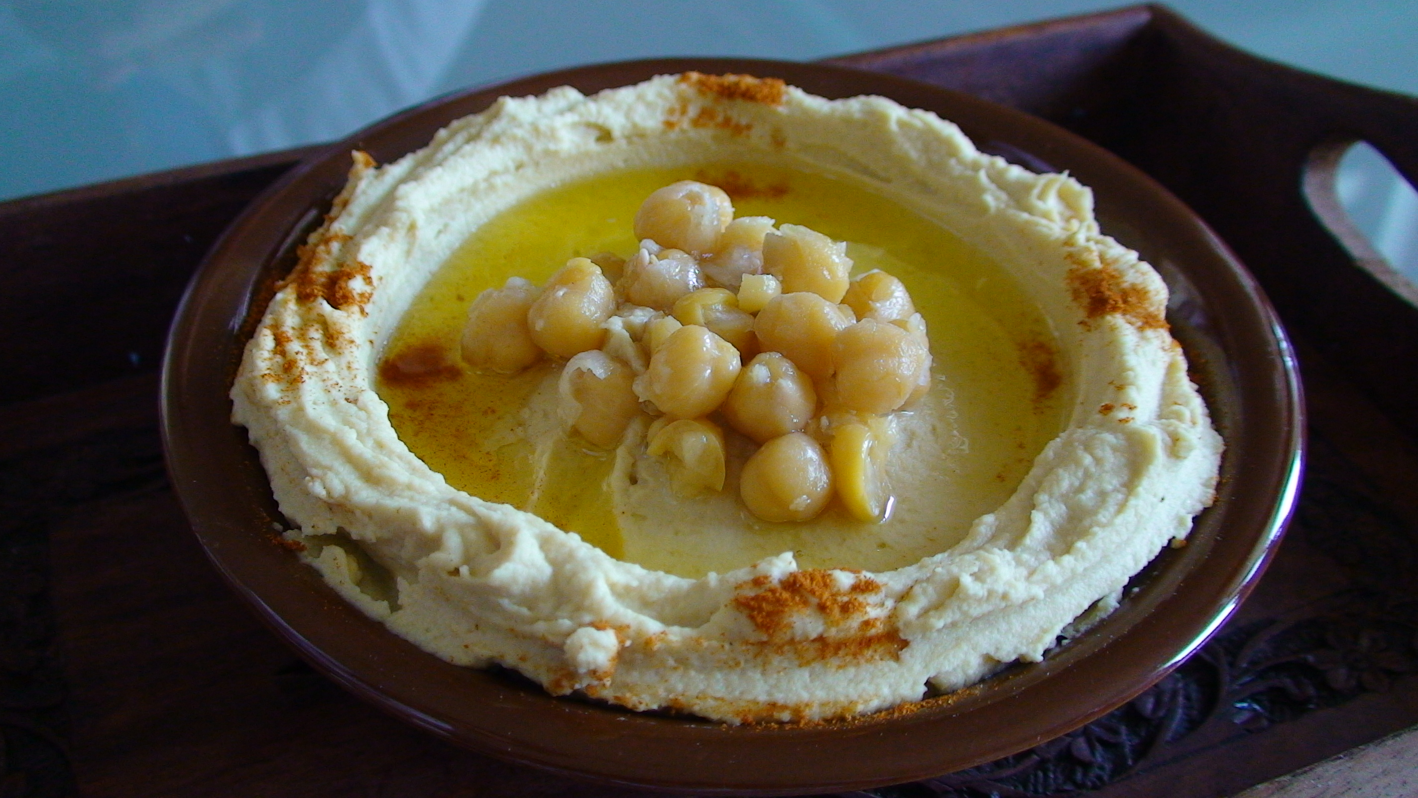 Lebanese Style Hummus, Photo by Mr Hassan